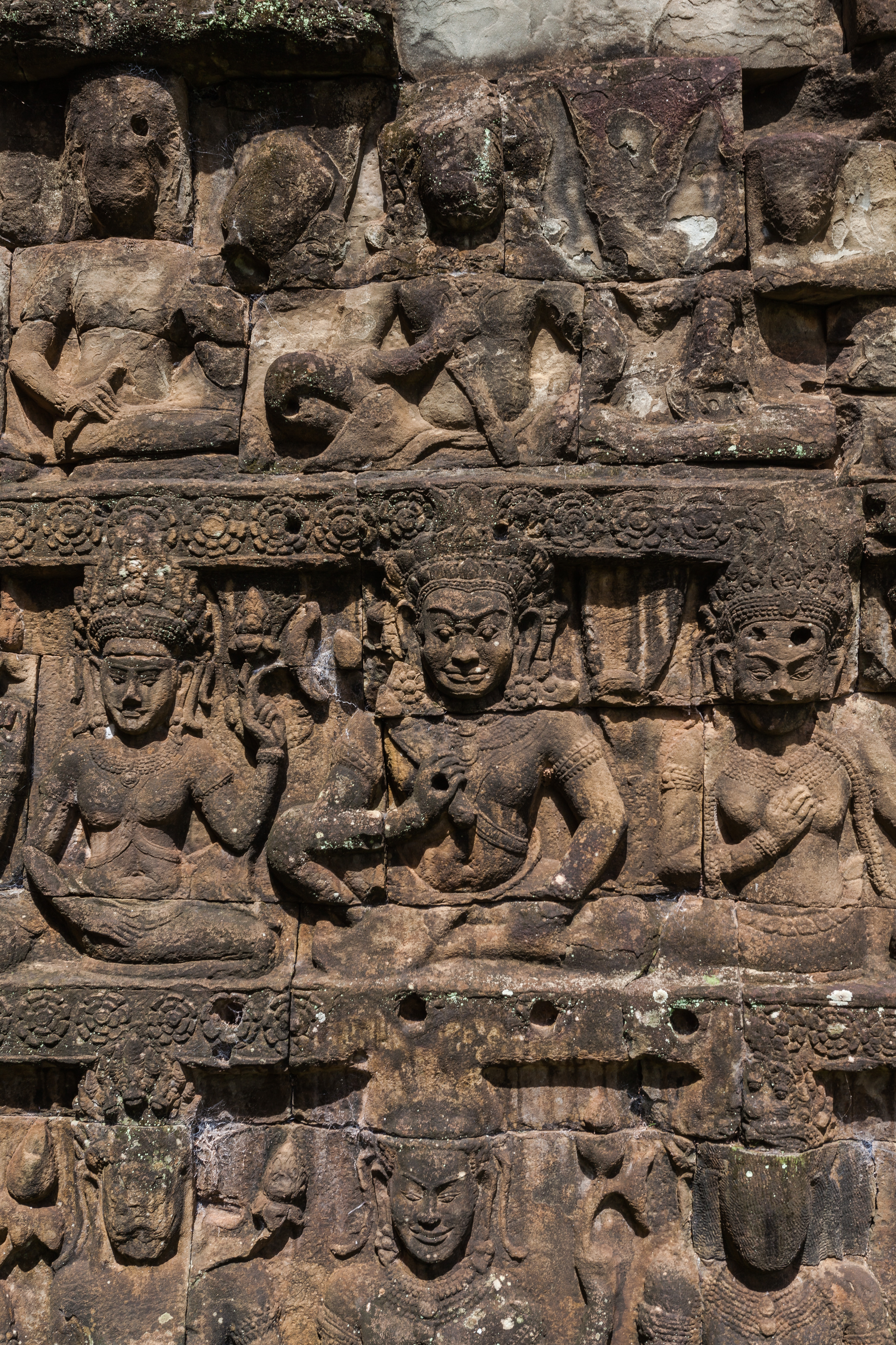 Terrace of the Elephants, Angkor Thom, Cambodia